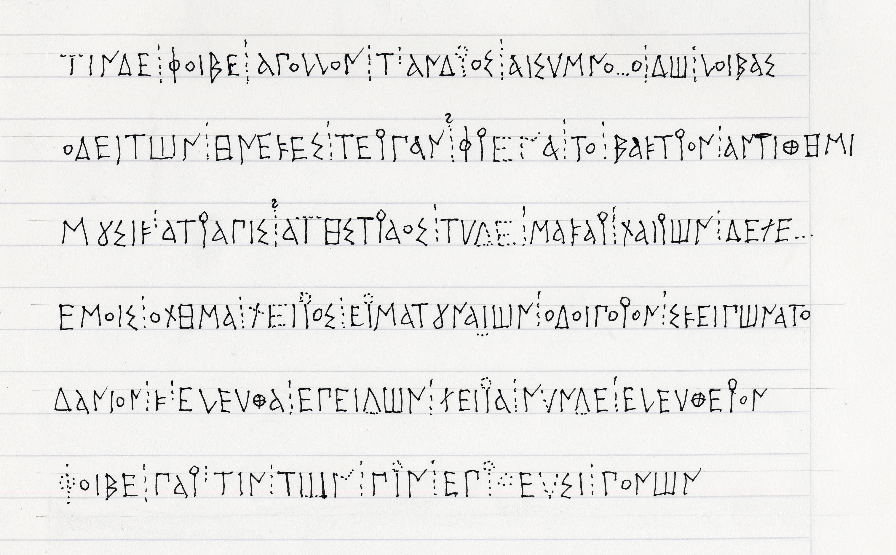 Transcription of the inscription on the ancient Greek amulet MS 5236 which invokes the god Phoebus Apollo.